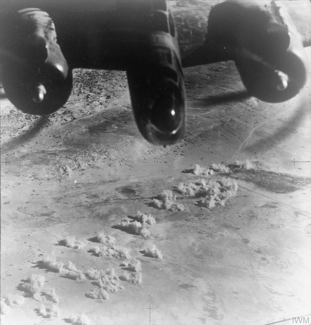 A Martin Baltimore Mark III overflys the target as bombs explode on the German-held landing ground at El Daba, Egypt, during a raid by No. 223 Squadron RAF in support of the Alamein offensive.